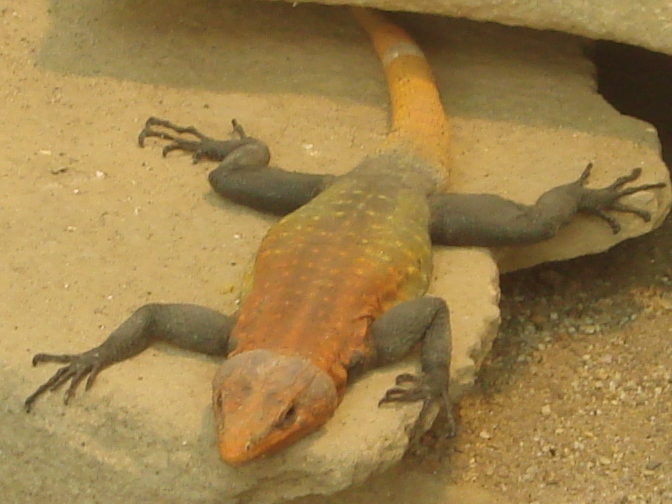 Photo of an emperor flat lizard (Platysaurus imperator) taken by ElinorD at Frankfurt Zoo on 9 April 2007